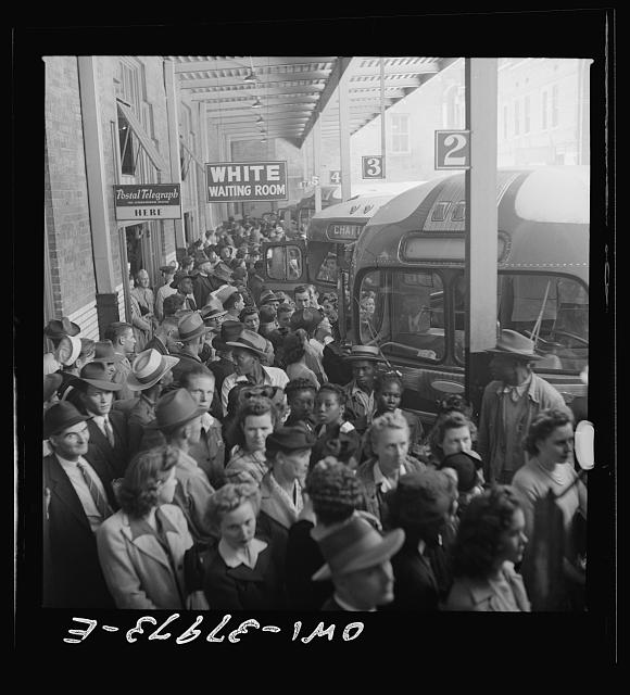 Greyhound Bus Terminal, in Memphis Tennessee showing crowds, buses, and "White Waiting Room" sign.